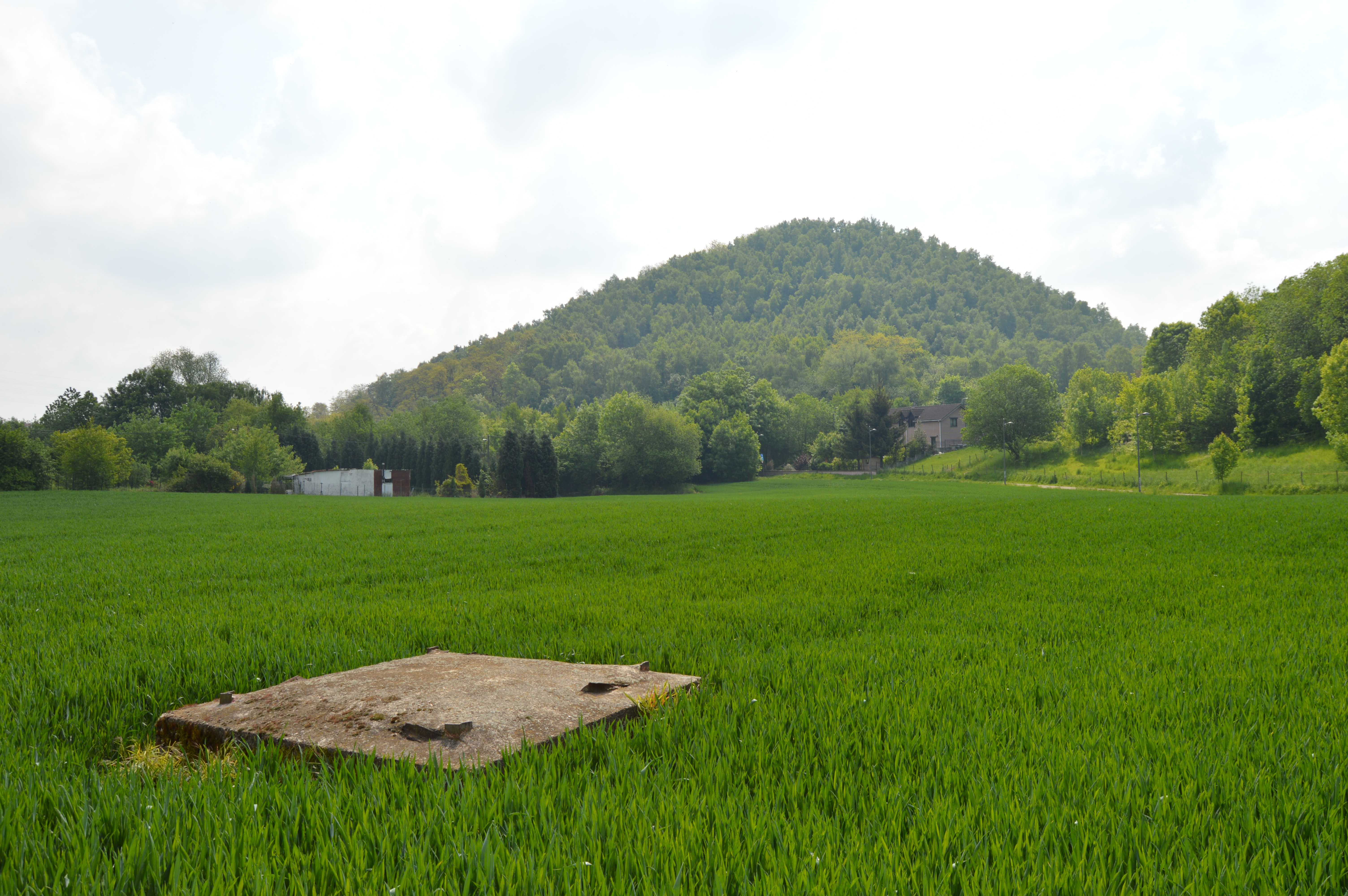 Ancient coal hill of the Petite Bacnure coal mine, and ancient pit by Bouxthay, in Herstal, Belgium.